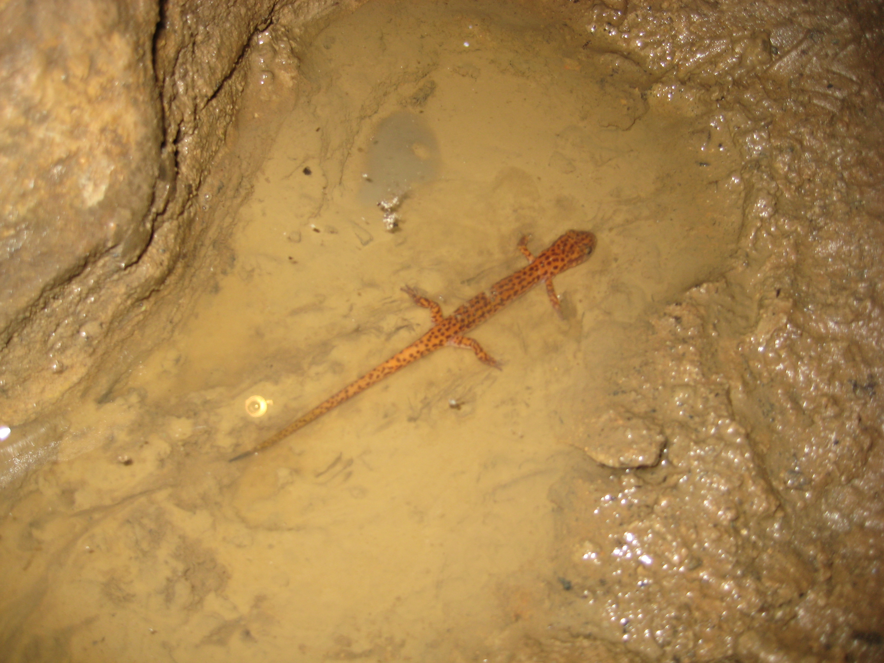 Cave salamander (Eurycea) found in Big Bone Cave while on a guided tour of the cave.